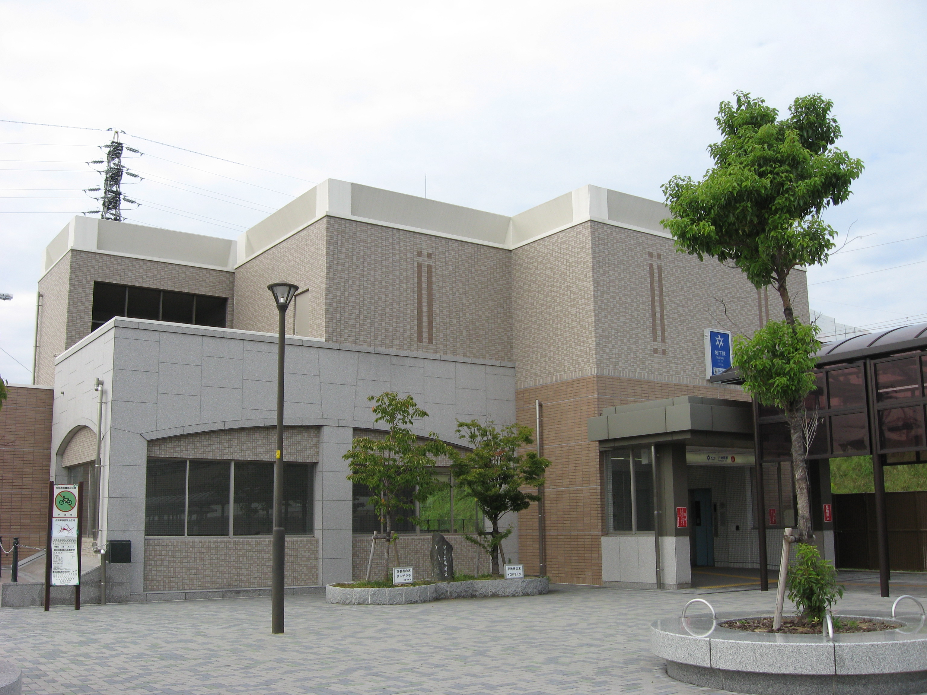 Kyoto Municipal Subway Rokujizo Station Entrance